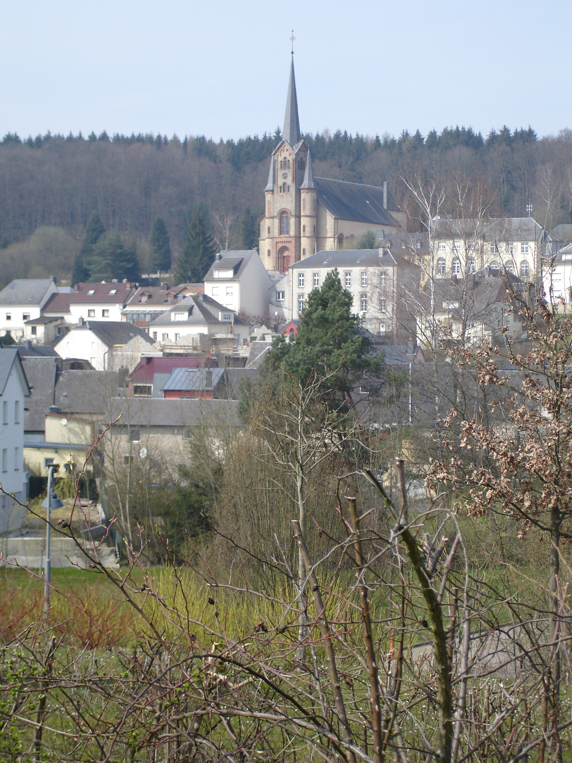 The church of Eischen, Luxembourg